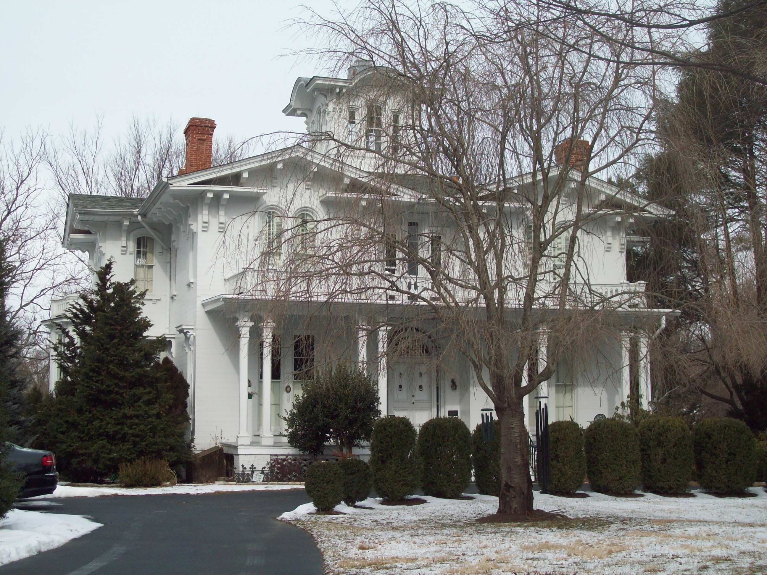 Temora, Ellicott City, Maryland, January 2011